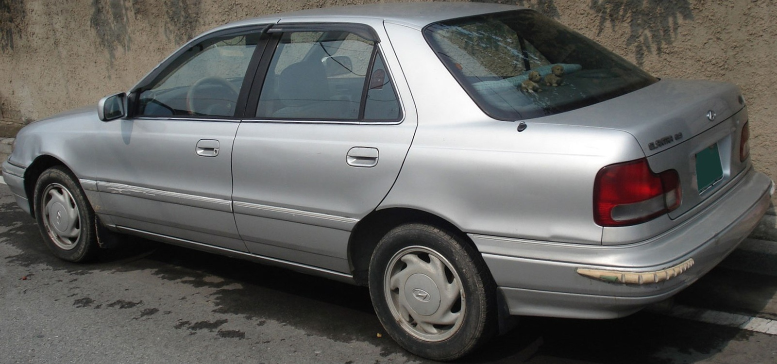 Hyundai New Elantra